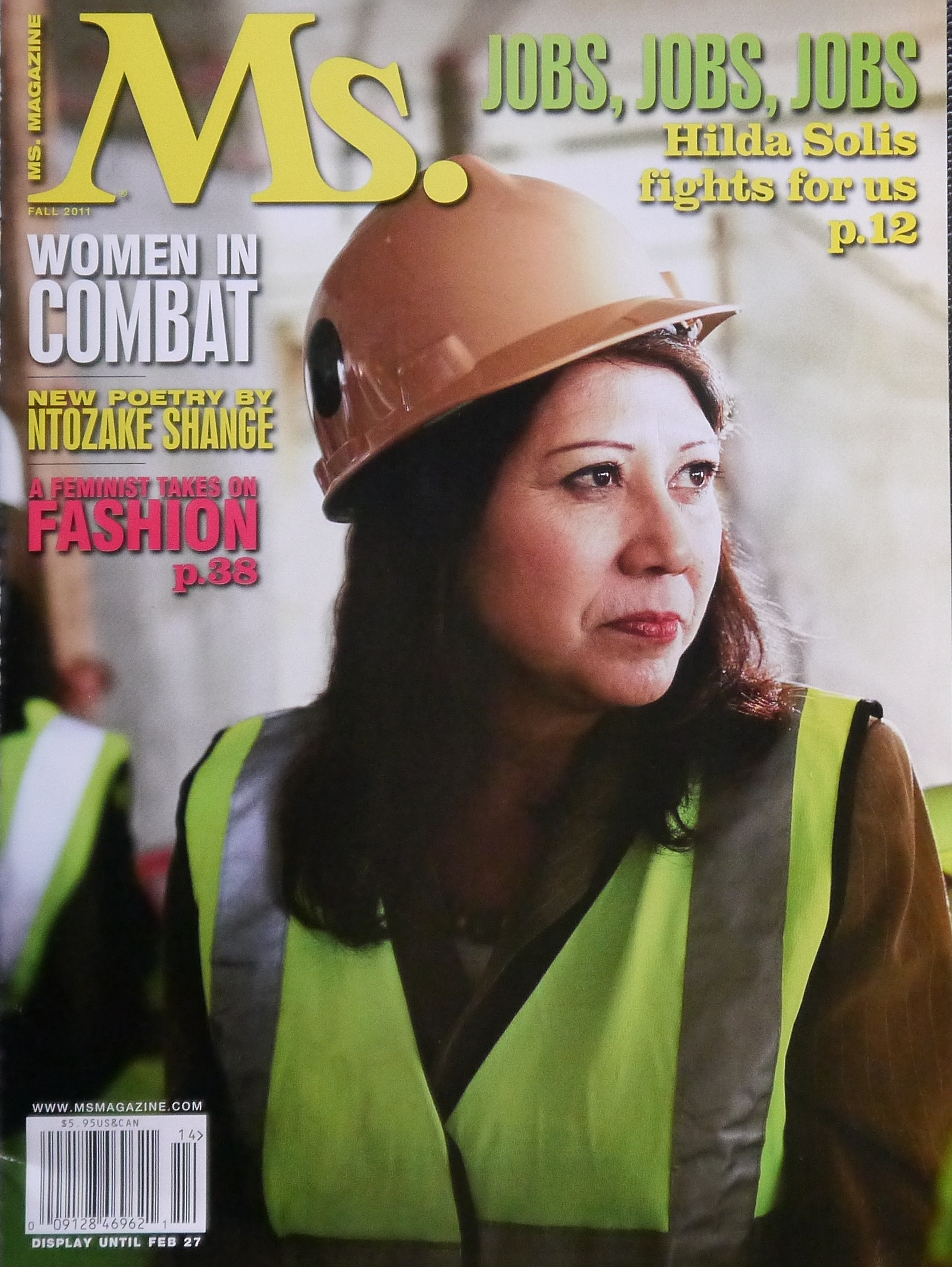 Ms. magazine, Fall 2011 issue featuring Hilda Solis